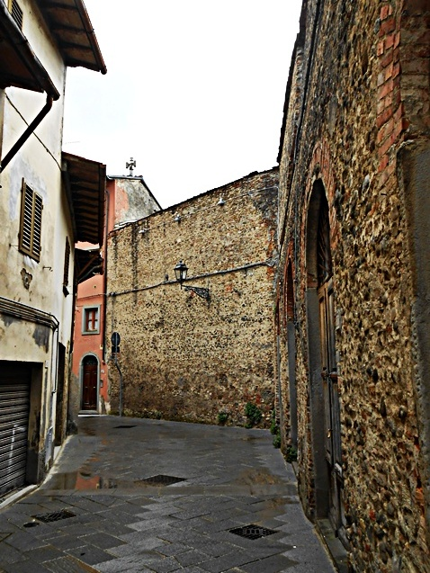 walls of 1300